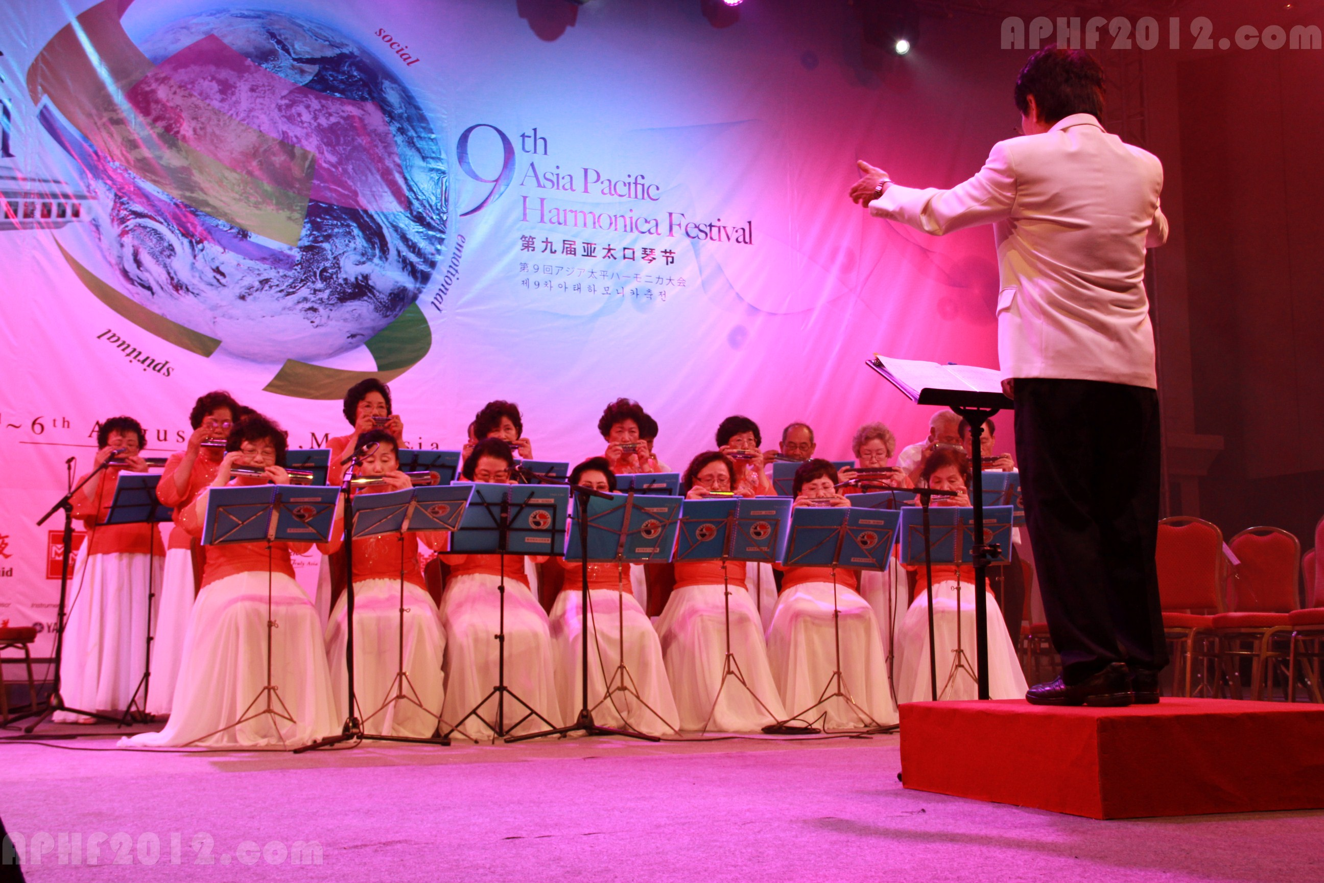 9th asia pacific harmonica festival competition